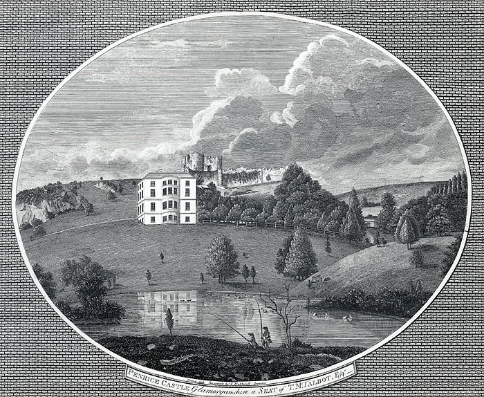 A view of a manorhouse in front of Penrice castle with two anglers in the foreground.